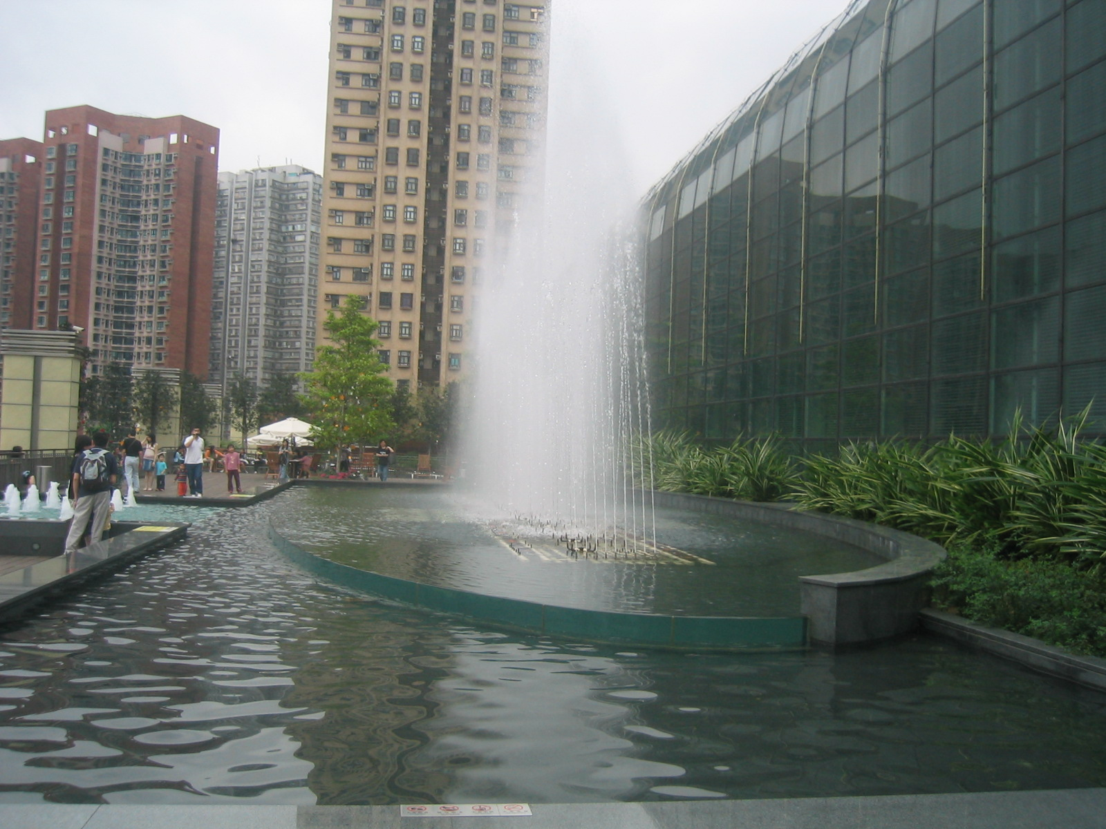 The music fountain at New Town Plaza, Shatin, Hong Kong